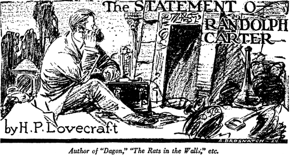 "The Statement of Randolph Carter" by H. P. Lovecraft, Weird Tales, February 1925. Artwork by Andrew Brosnatch (1896-1965).